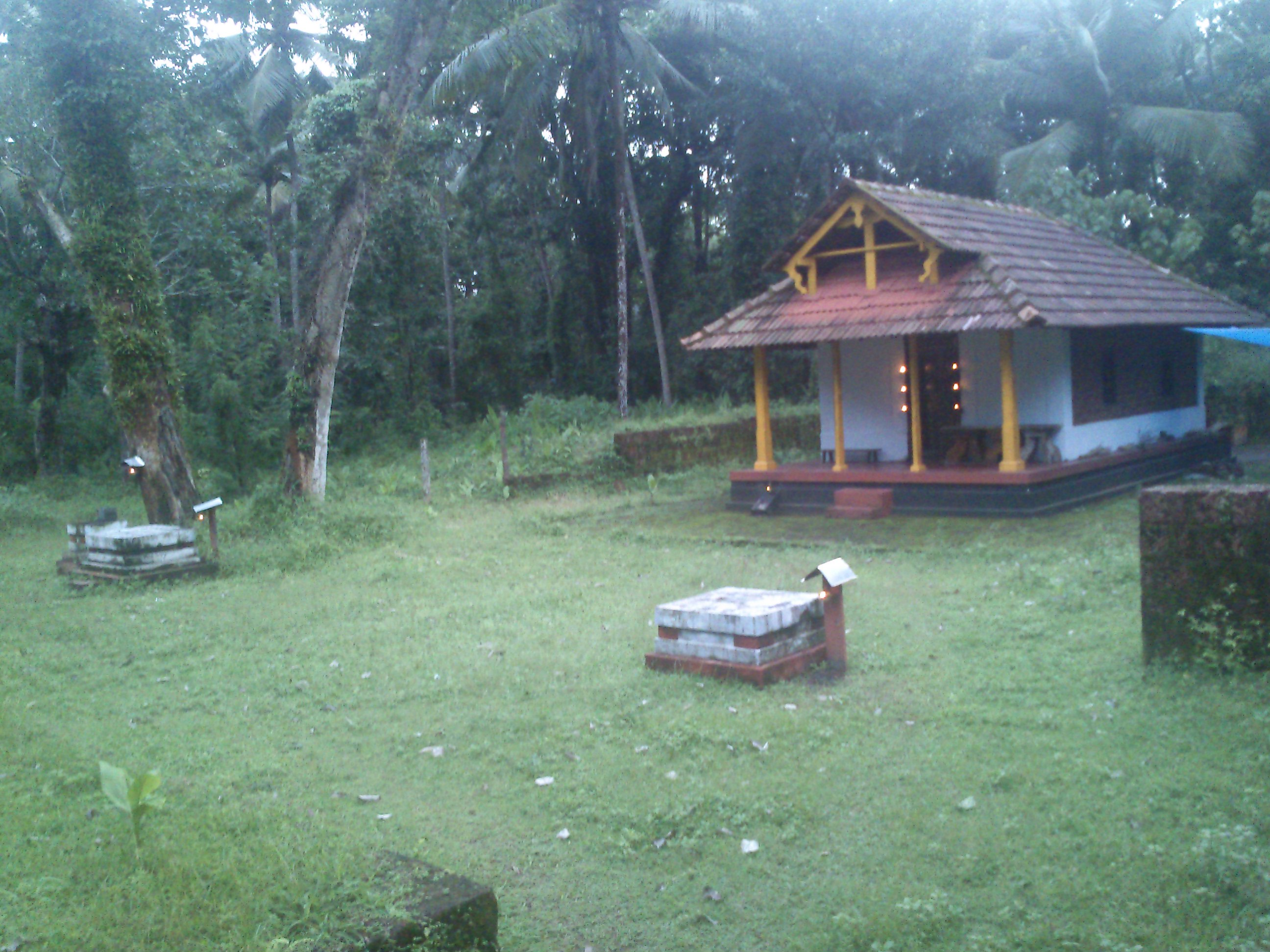 vadavil kalari sthanam